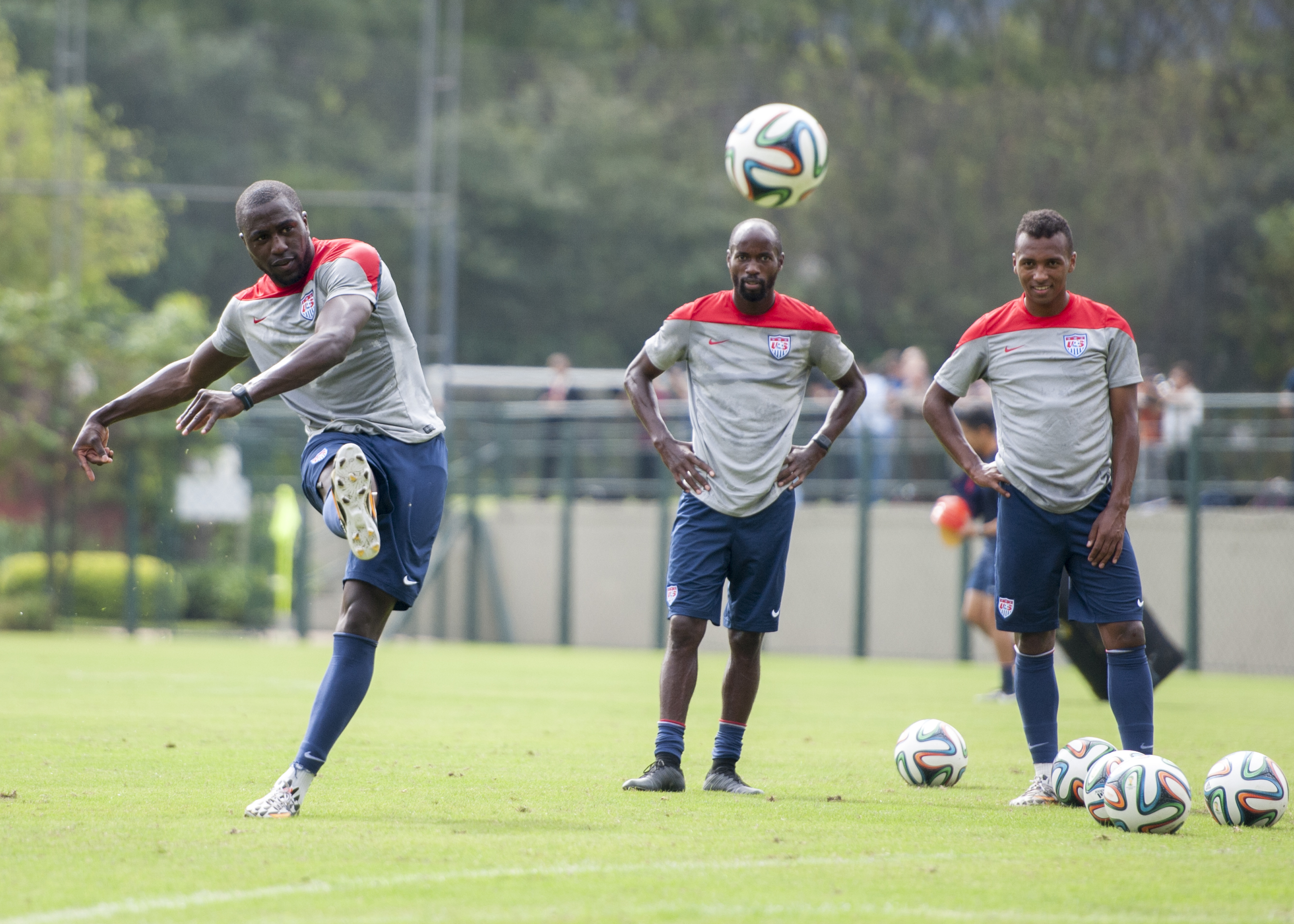 United States forward Jozy Altidore (left) takes a free kick during training while defender DeMarcus Beasley (middle) and midfielder Julian Green (right) look on at Sao Paulo FC's training ground in Sao Paulo, Brazil on June 11, 2014.